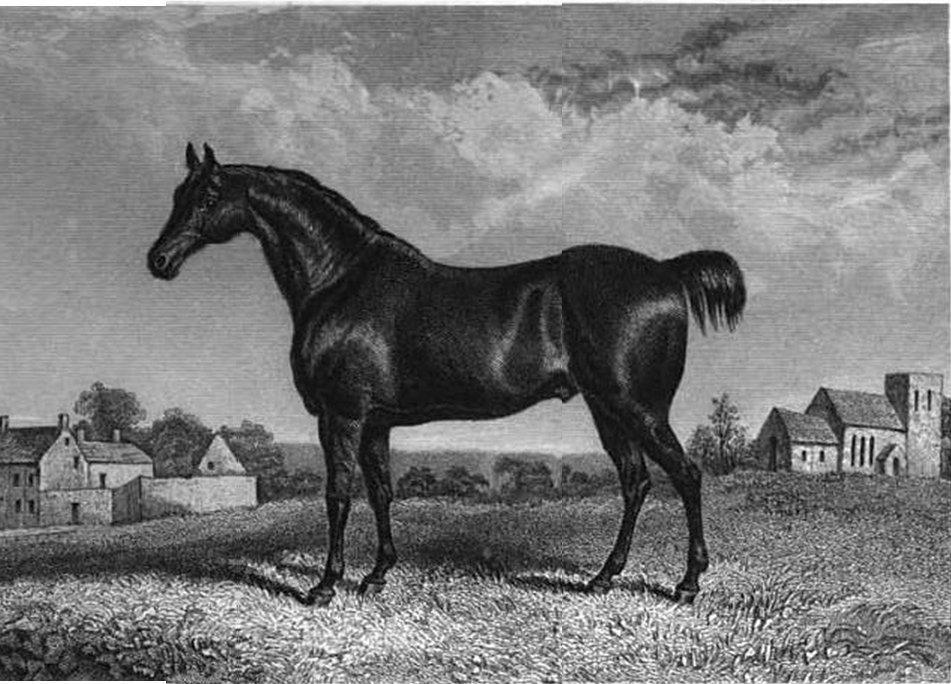 Confidence, a Norfolk Cob, engraved by J. H. Engleheart.